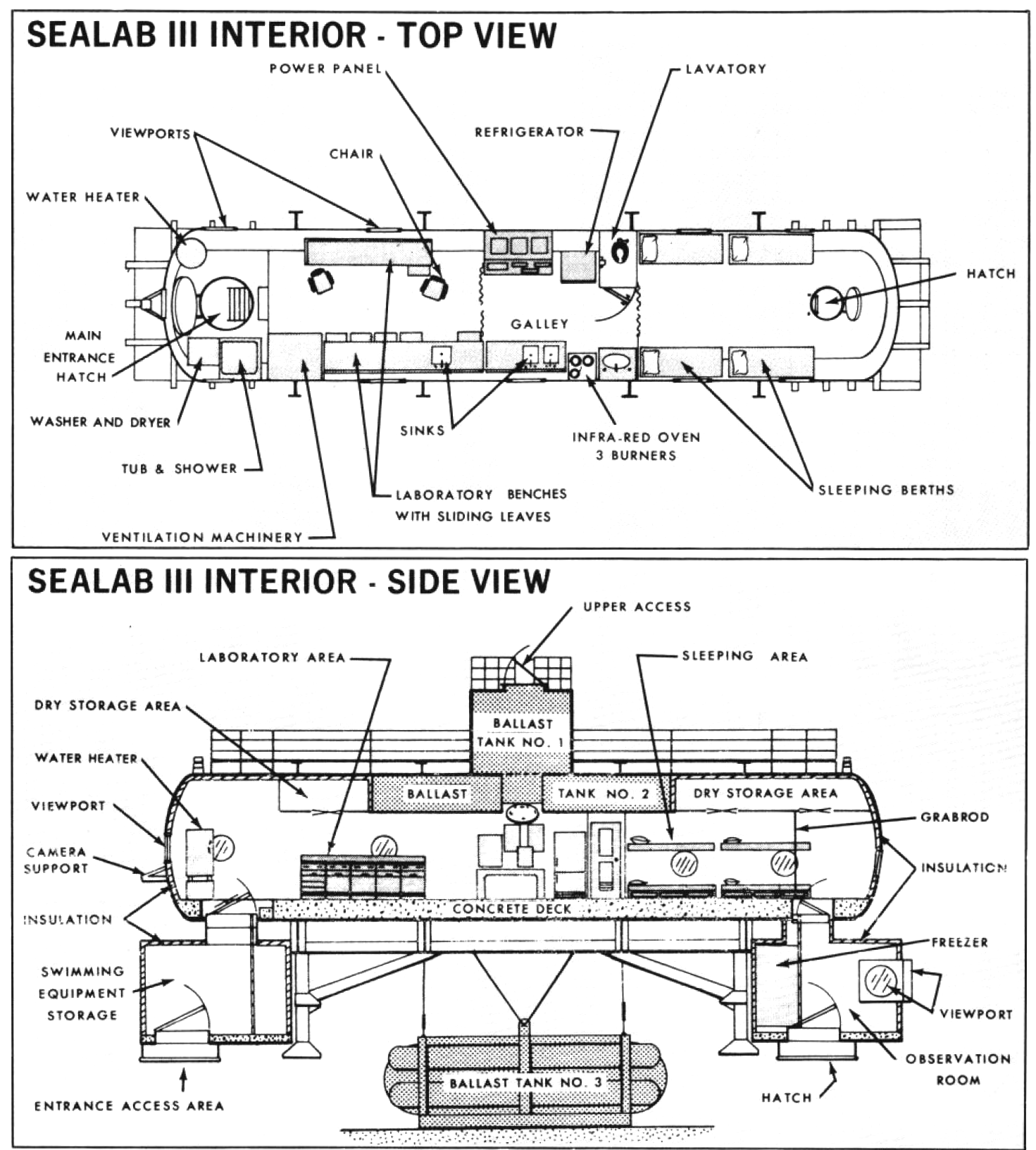 Drawing showing the U.S. Navy SEALAB III.